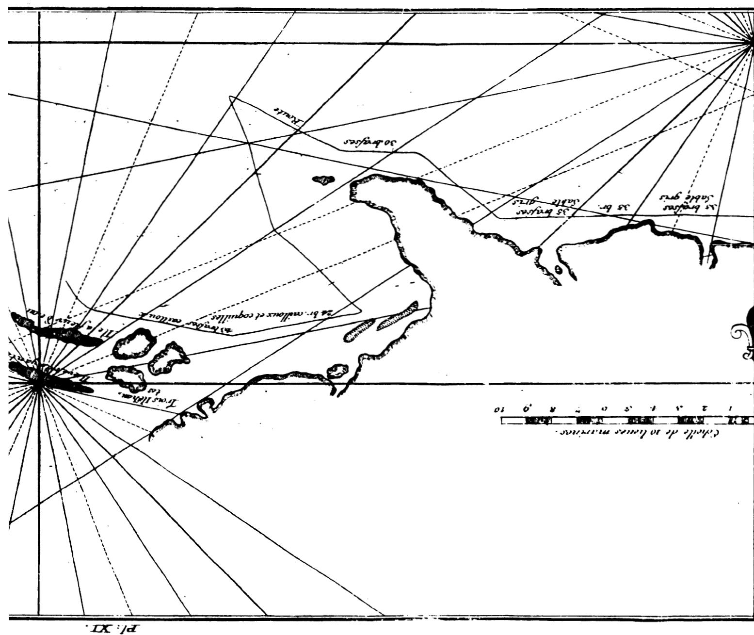 Map of northwestern East Falkland, Falkland Islands (Dom Pernety, 1769). The originally South-Up map is turned upside down here for an easier coastline recognition.